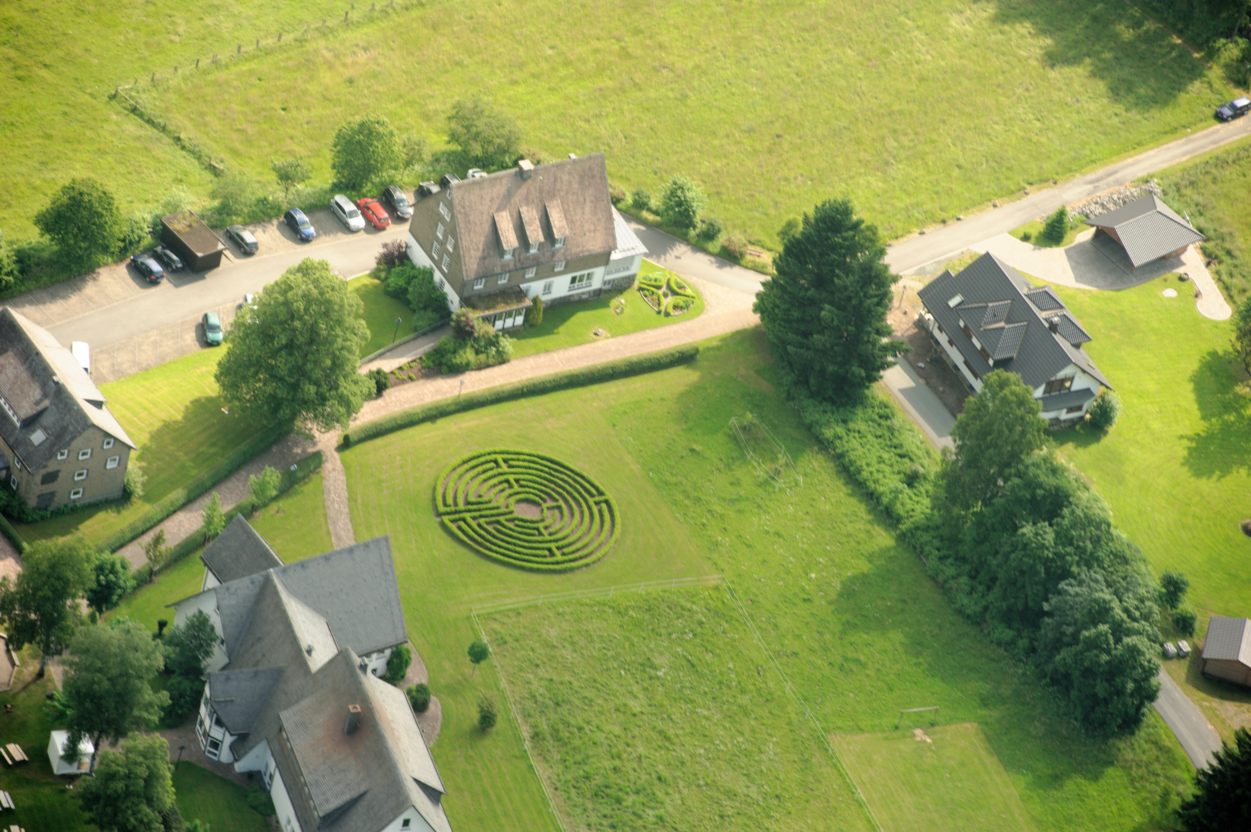 Fotoflug Sauerland-Ost, St. Bonifatius Bildungsstätte Elkeringhausen The making of this document was supported by the Community-Budget of Wikimedia Germany.